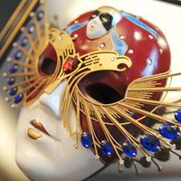 Golden Mask Award